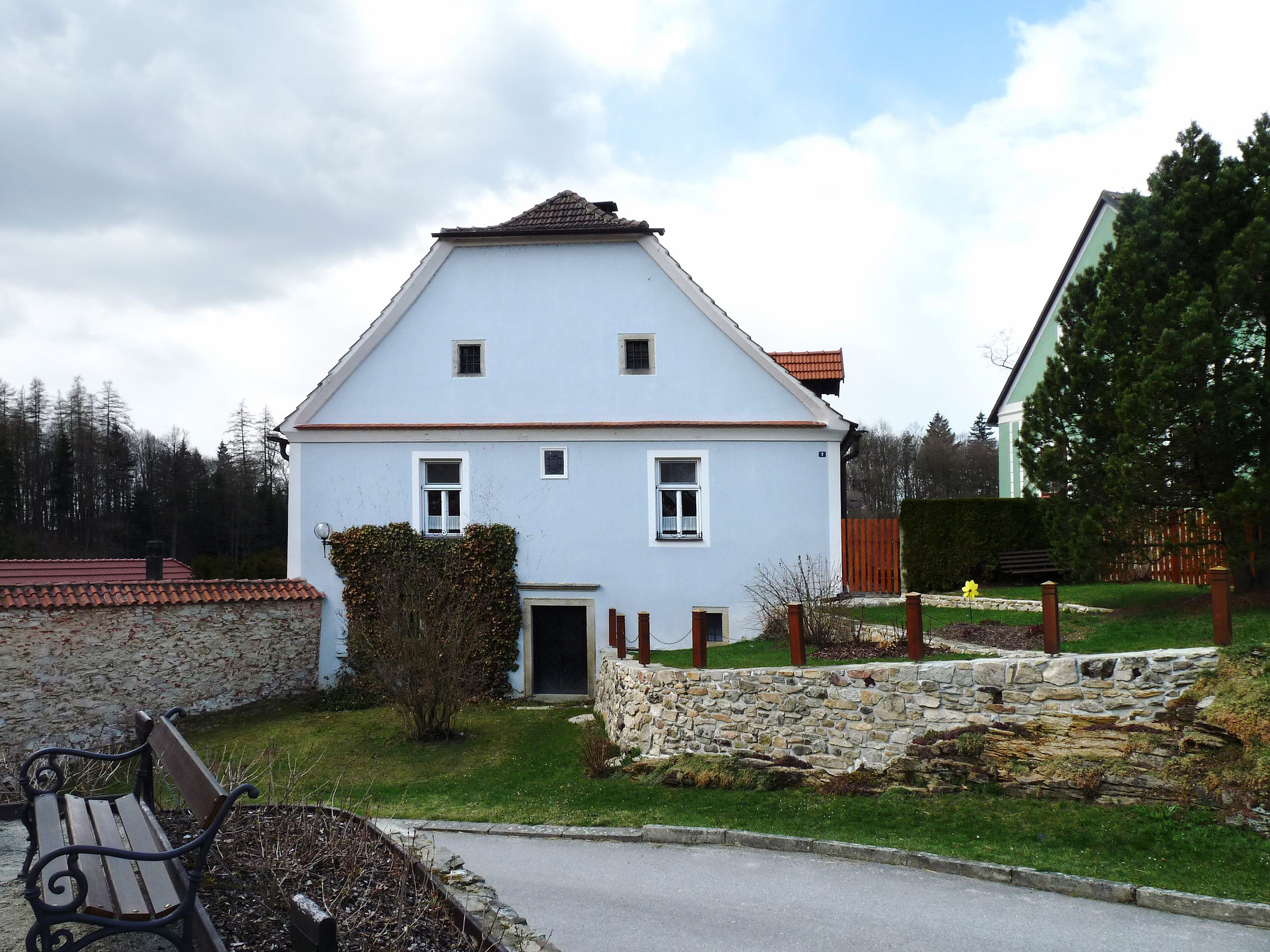 House No 2 in the village of Červená Lhota, Jindřichův Hradec District, Czech Republic.